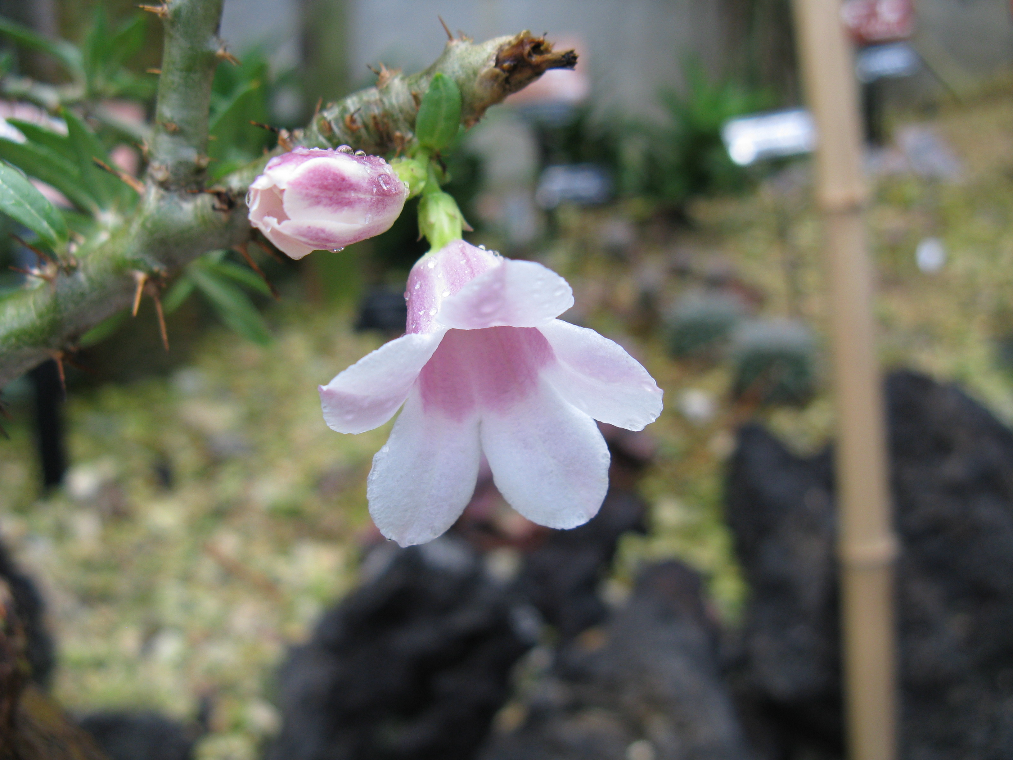 Scientific name Pachypodium bispinosum Place:Osaka Prefectural Flower Garden,Osaka,Japan